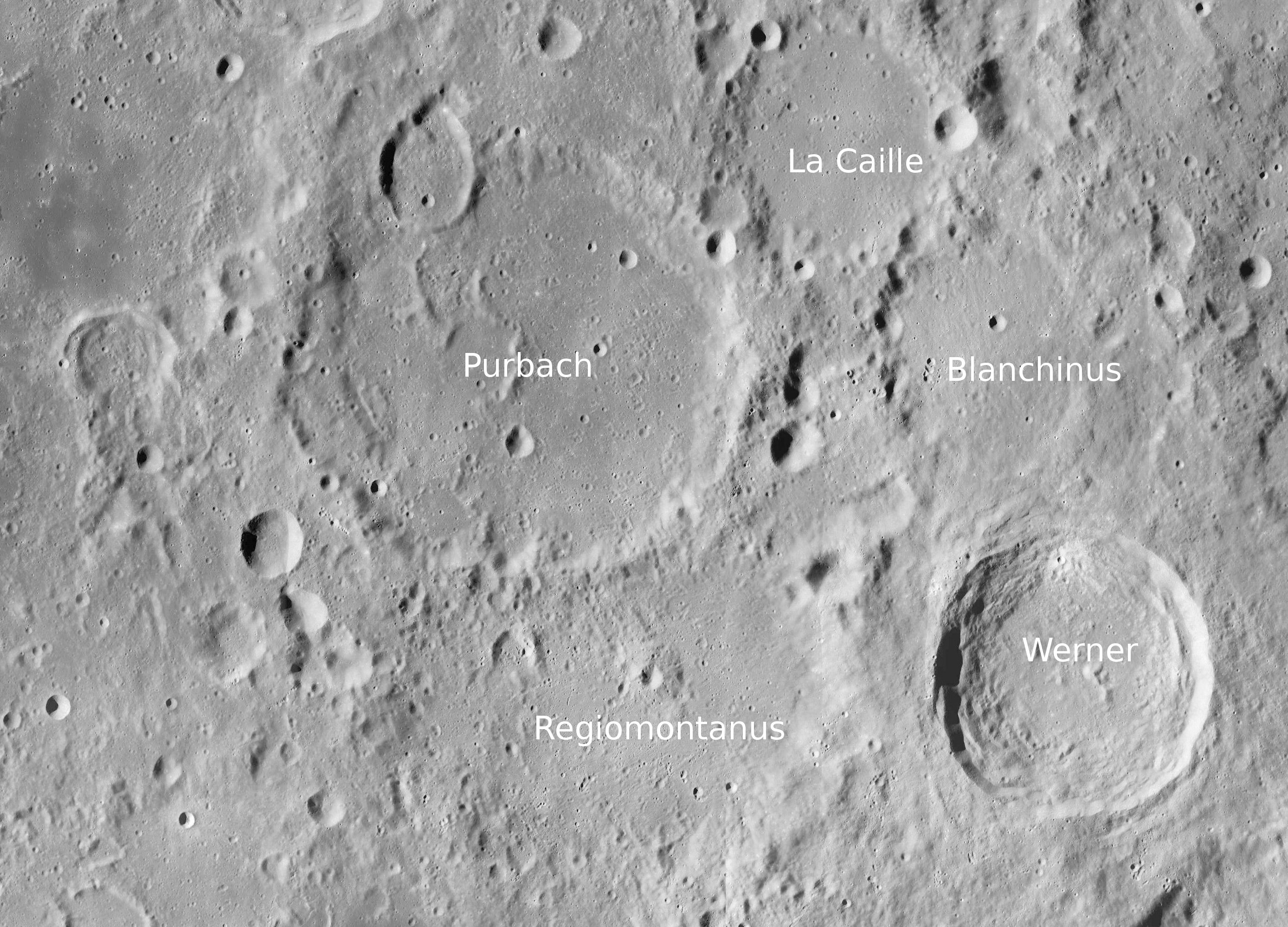 Craters Purbach, Regiomontanus, La Caille, Blanchinus and Werner (detail of LRO - WAC global moon mosaic; Mercator projection)